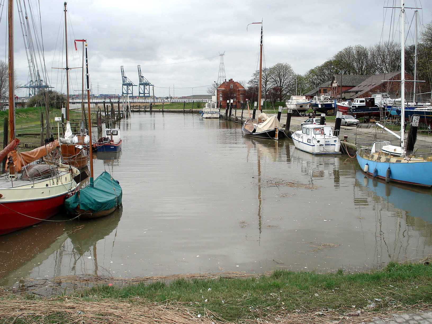 Lillo-Fort, tidal harbour at high tide. Lillo, Antwerp, province of Antwerp, Belgium